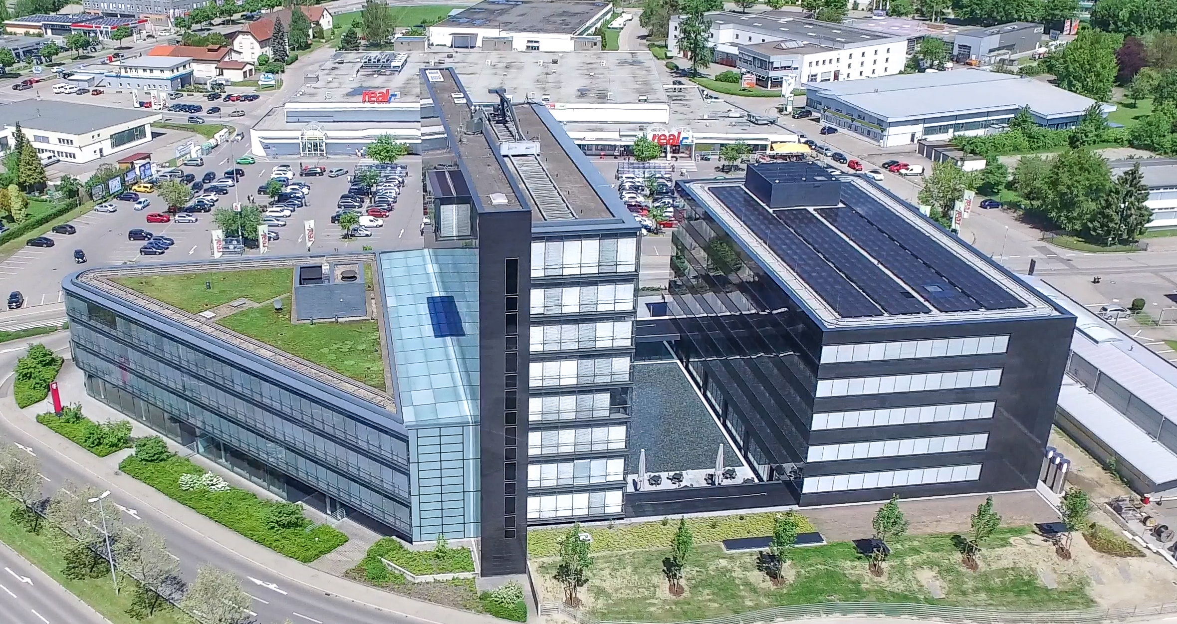 Headquarters of CHG-Meridian in Weingarten, Baden-Württemberg, Germany